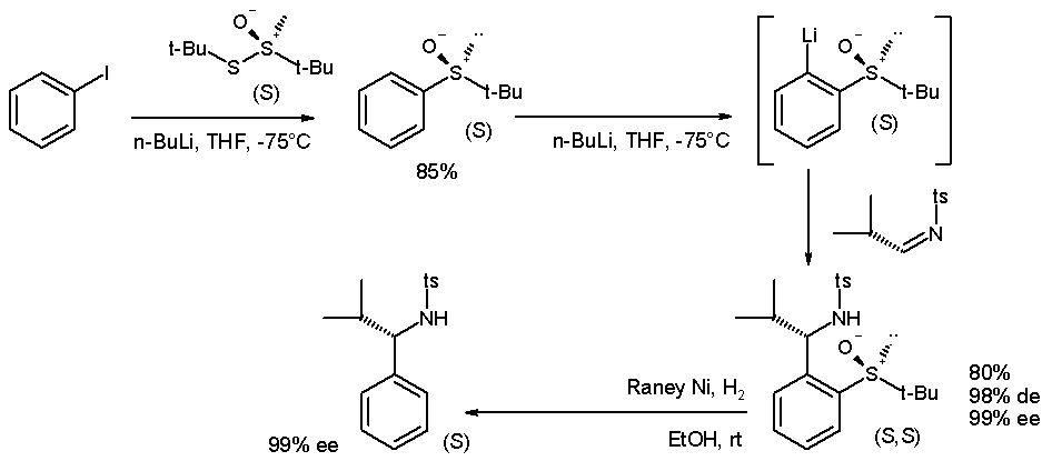 DOMapplication